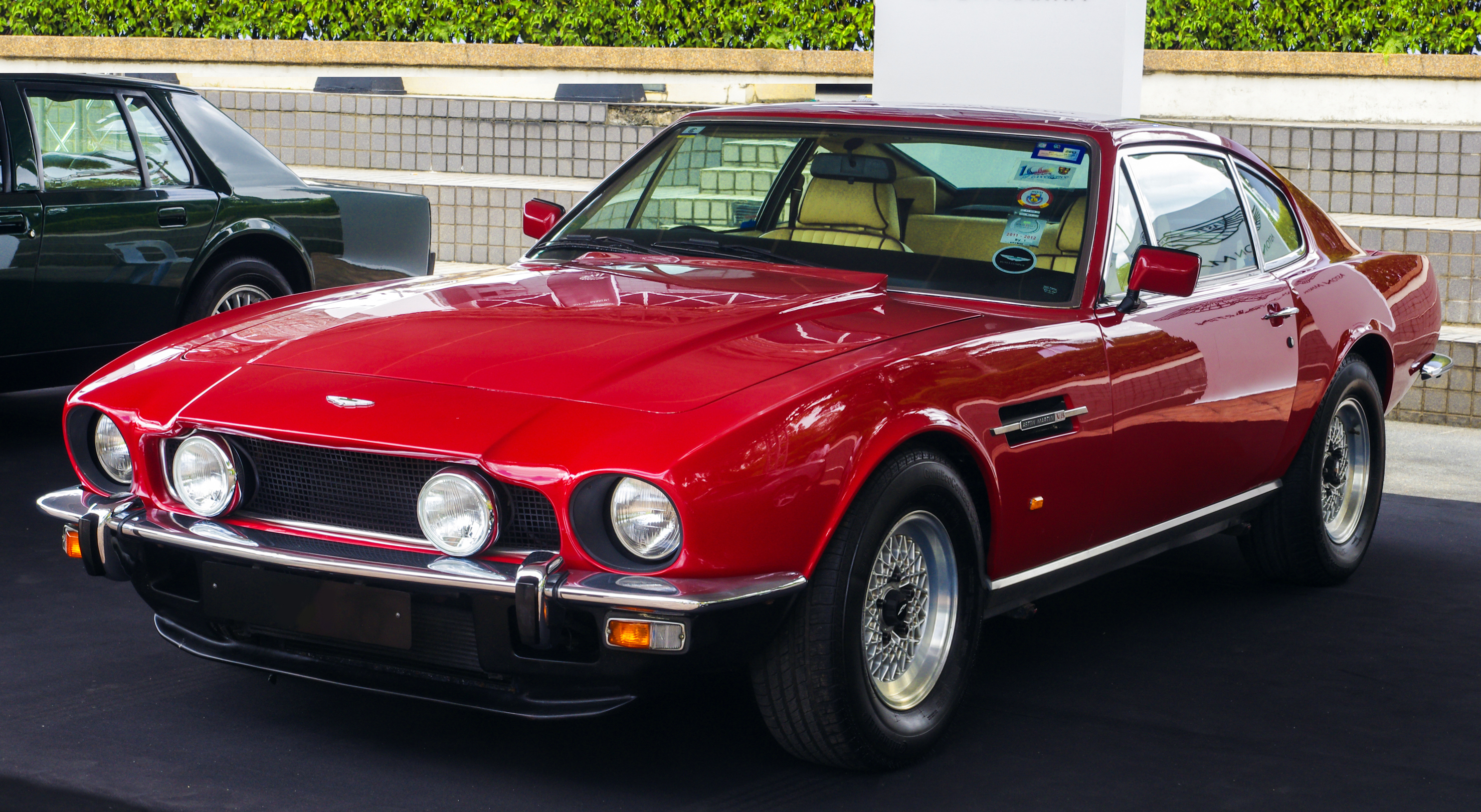 Series 5 Aston Martin V8 Saloon, belonging to the Sultan of Selangor, Malaysia. Can anyone tell me more about this car? Behind can be spotted a 1990 Aston Martin Lagonda registered in Singapore, chassis number SCFDL0IS5LTR13639 and registration EC99R (originally ABW1).